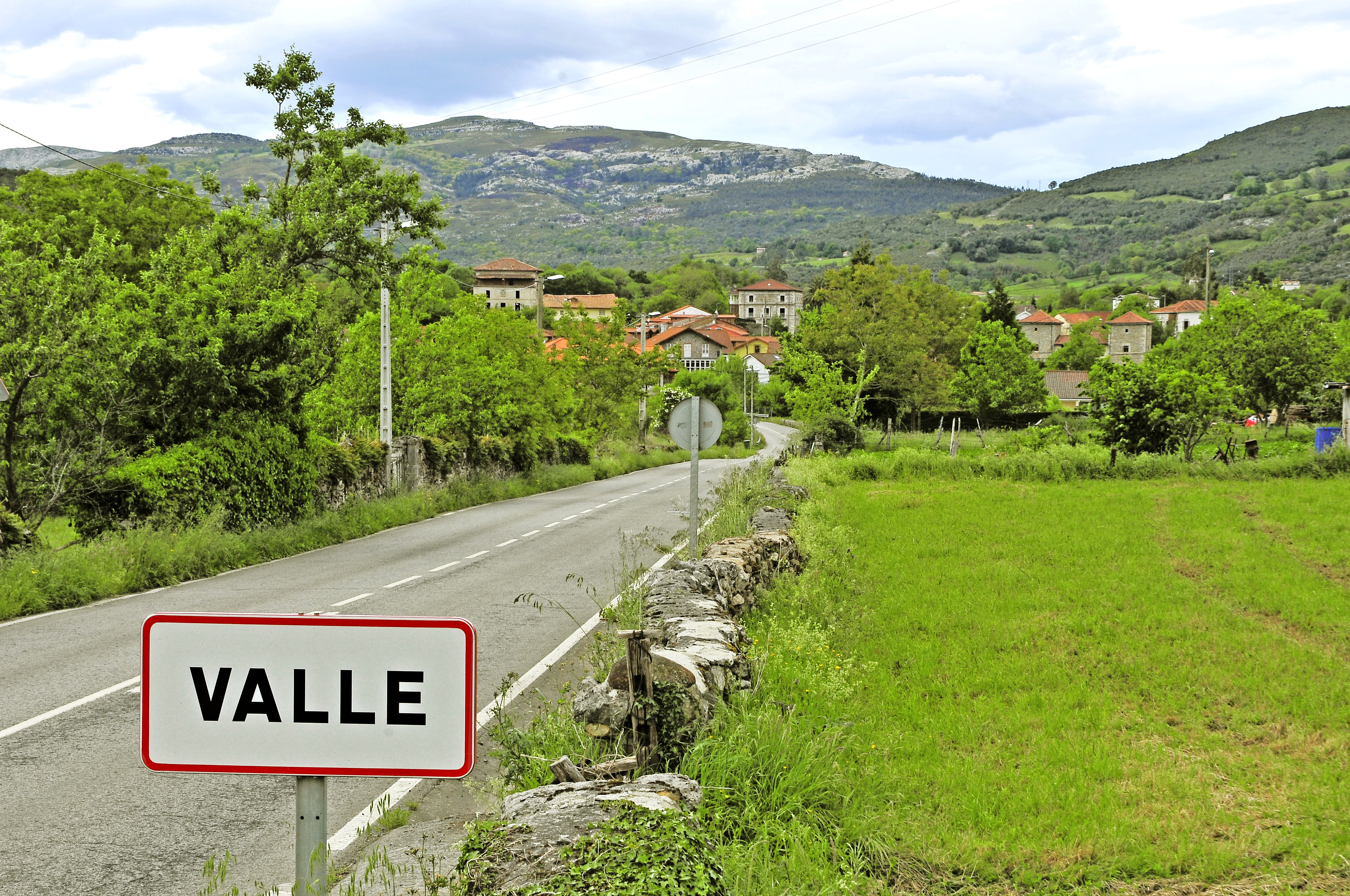 The village and its surroundings. Valle, Ruesga, Cantabria, Spain